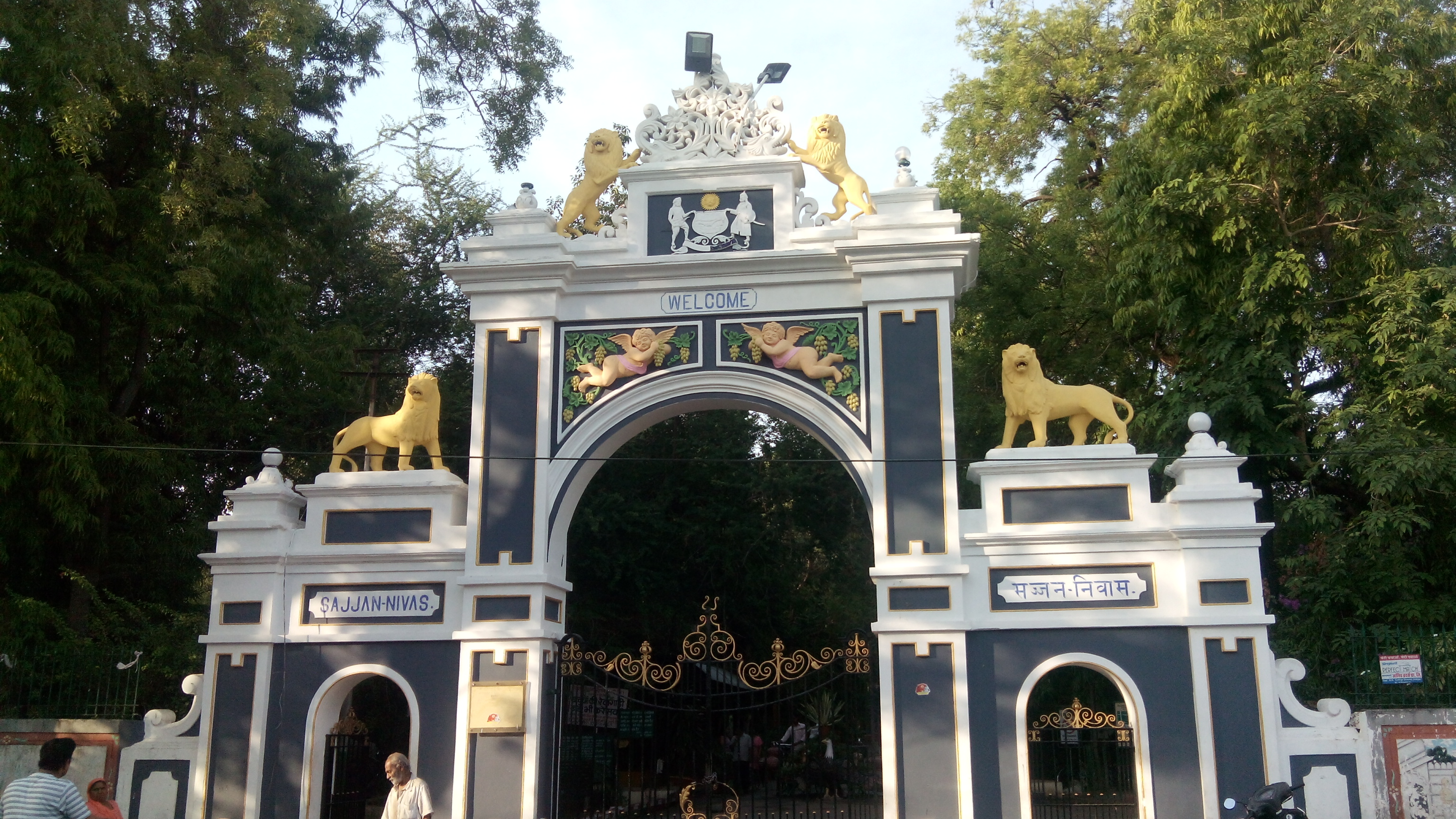 A picture showing the entrance gate of Gulabh Bagh, showing total three adjacent gates, with statues of four tigers on the top.